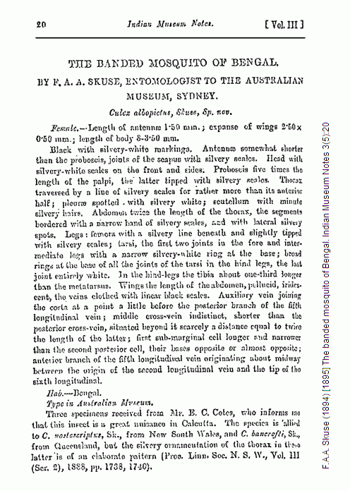 Skuse's (died 1896) original description of the Asian tiger mosquito Aedes albopictus, then called Culex albopictus: F. A. A. Skuse (1894) [1895] The banded mosquito of Bengal. Indian Museum Notes 3(5):20